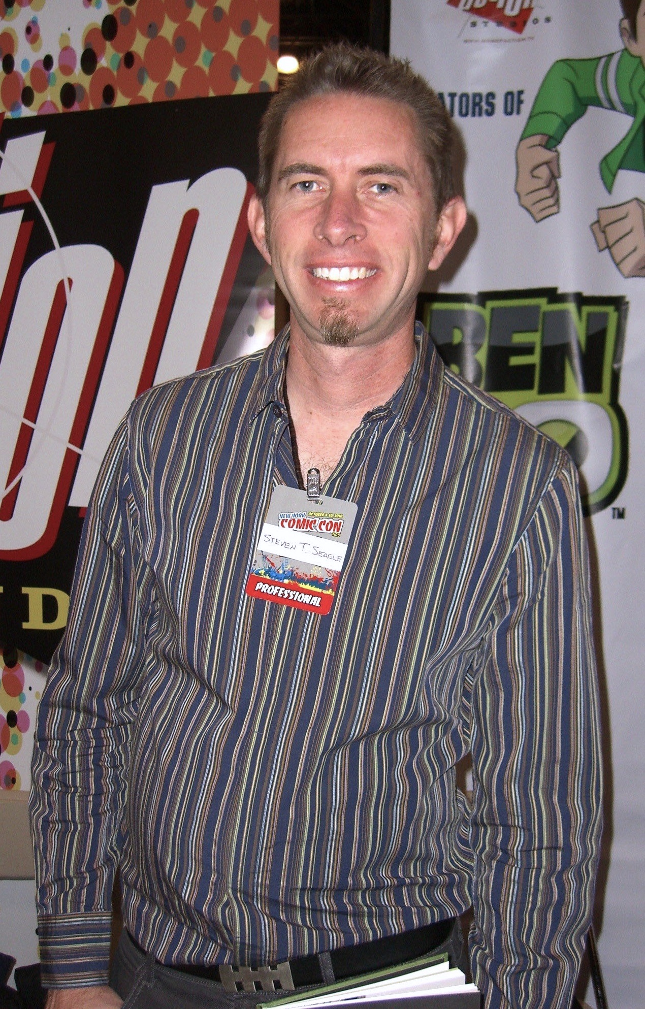 Comic book creator Steven T. Seagle, at the New York Comic Convention in Manhattan, October 10, 2010. Photo by Luigi Novi. This photo may be used, modified and published for any purpose, only if a easily visible credit to the photographer is placed near the photo in each instance in which it is used. (See licensing information below.) Publication of this photo without this proper attribution constitute copyright infringement. For more information on my photos, you can contact me here.